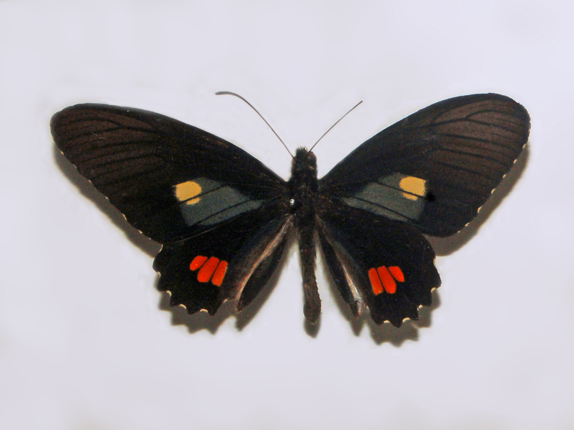 Parides erithalion erlaces male, from Peru